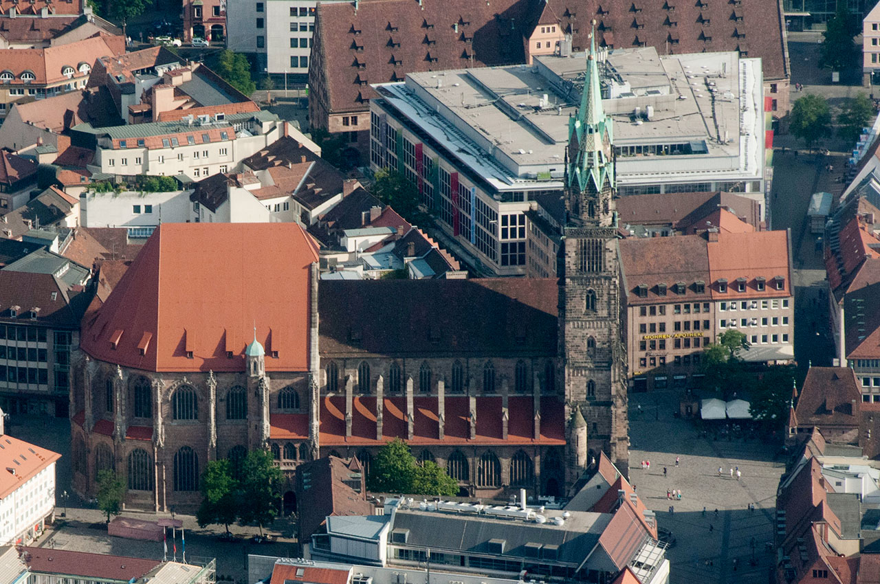 Aerial Photography of the Lorenzkirche in Nuremberg, Bavaria. View from the north.